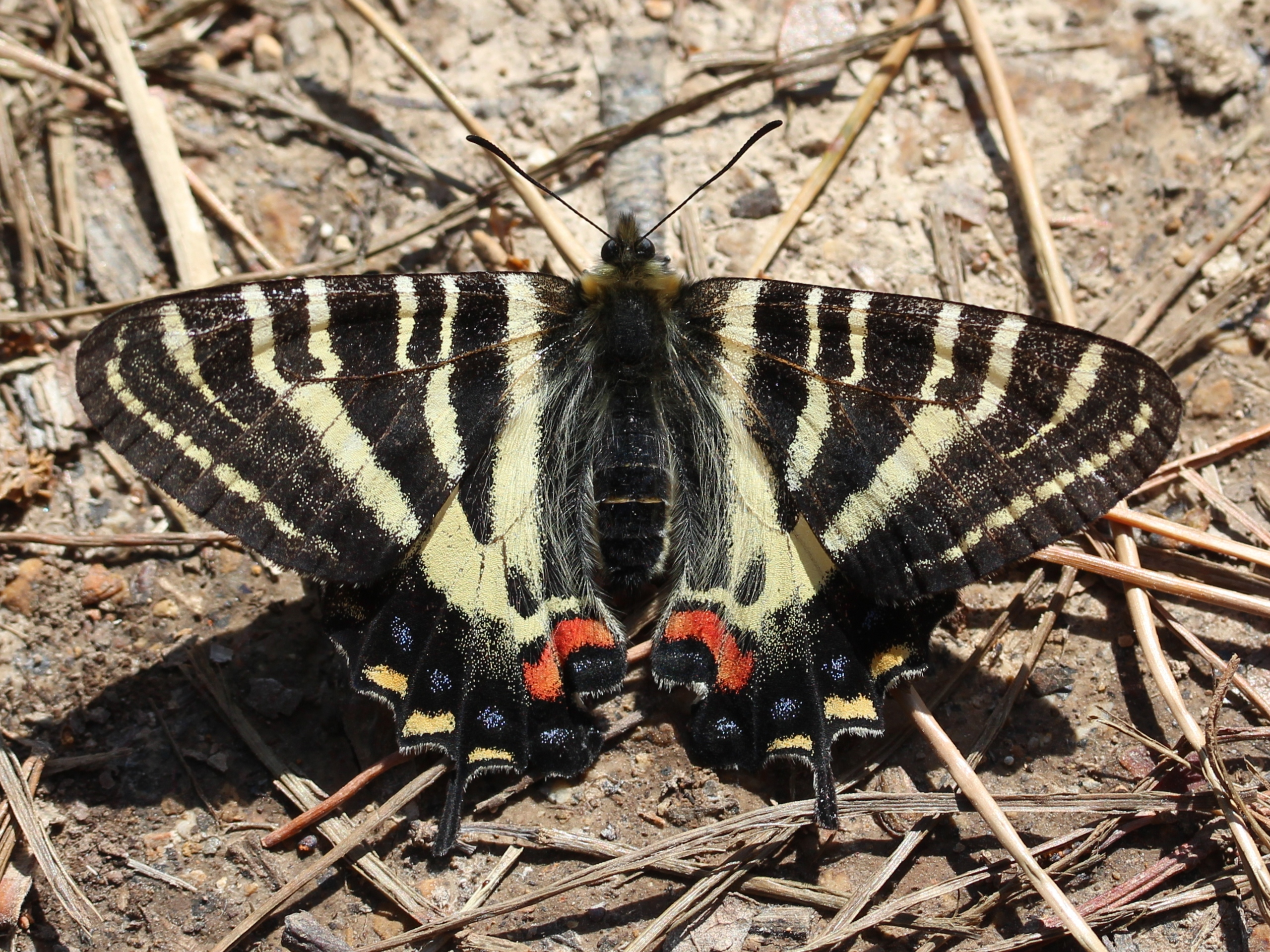 Luehdorfia japonica on the ground in Japan.